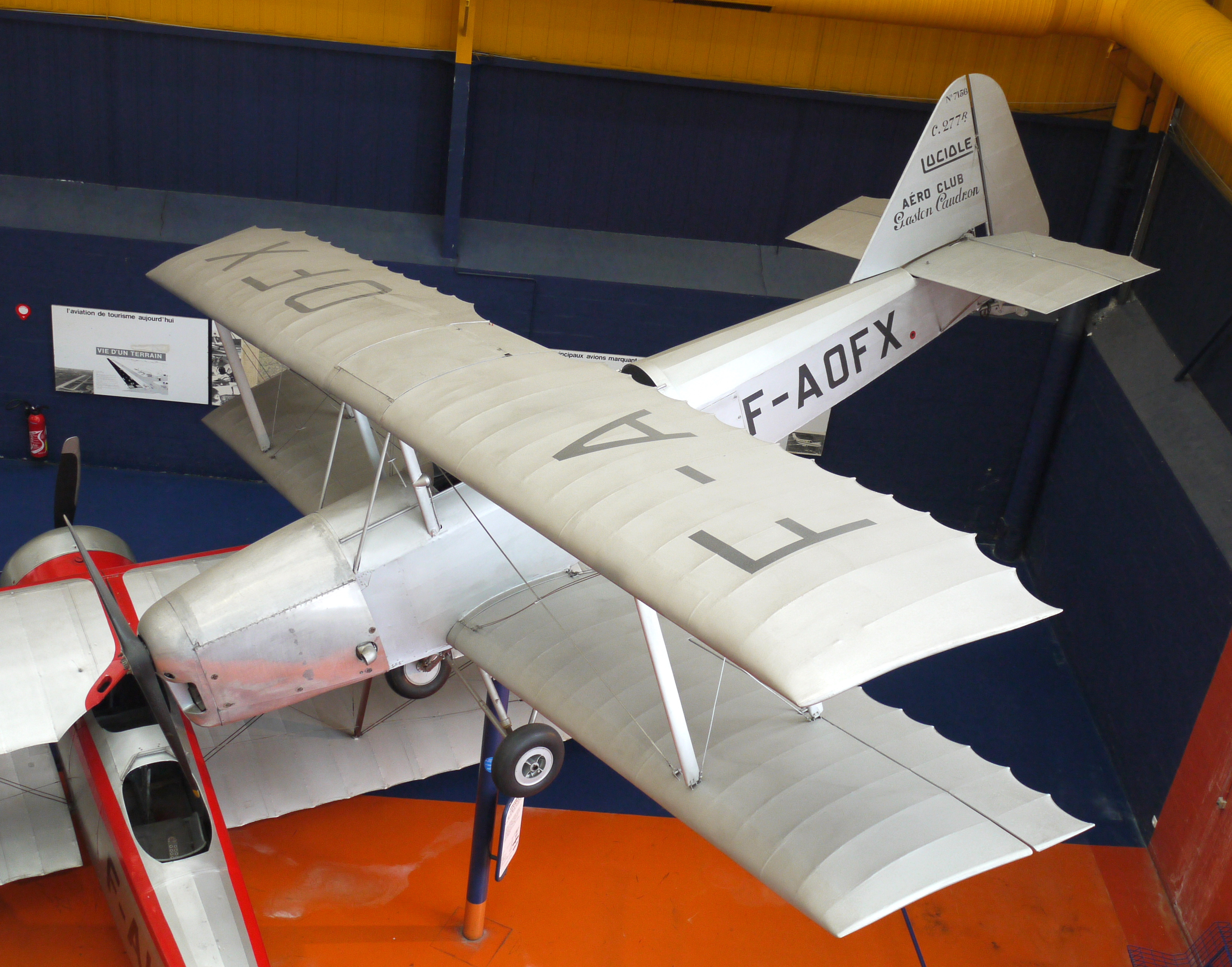 Caudron C270 "Luciole" sporting, touring and trainer aircraft (1931), Museum of Air and Space Paris, Le Bourget (France)